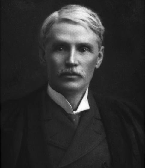 John Wishart (1850-1926), portrait photograph taken around 1900